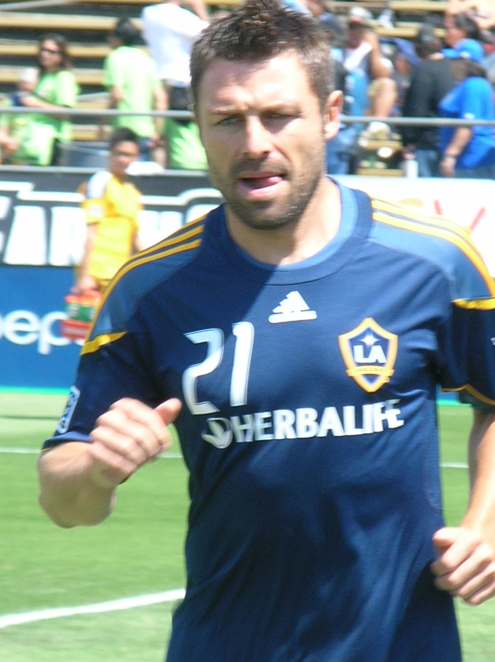 LA Galaxy midfielder Dema Kovalenko at an away game against the San Jose Earthquakes. The Earthquakes won 1-0.